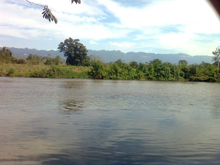 Uxpanapa Veracruz municipio